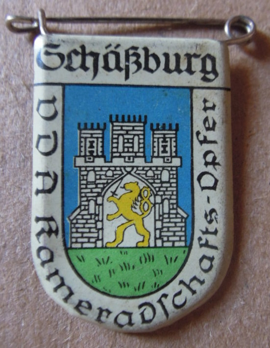 VDA Schaßburg metal donation badge, distributed from 1934-1939